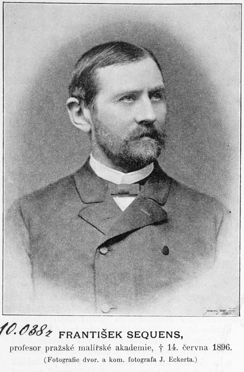 Portrait of František Sequens (1836-1896), Czech painter.